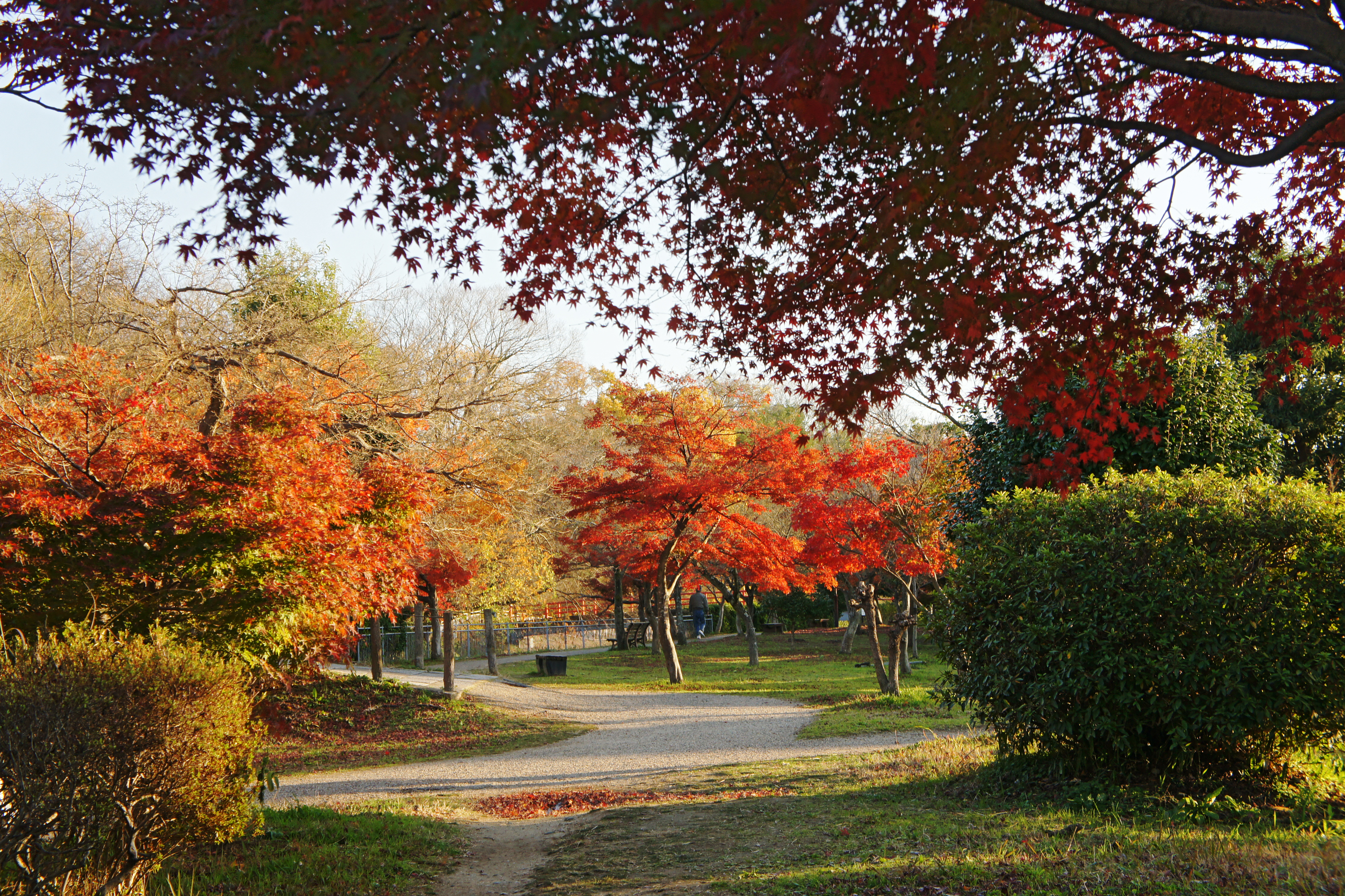 Nara Prefectural Tatsuta Park in Ikaruga, Nara prefecture, Japan.